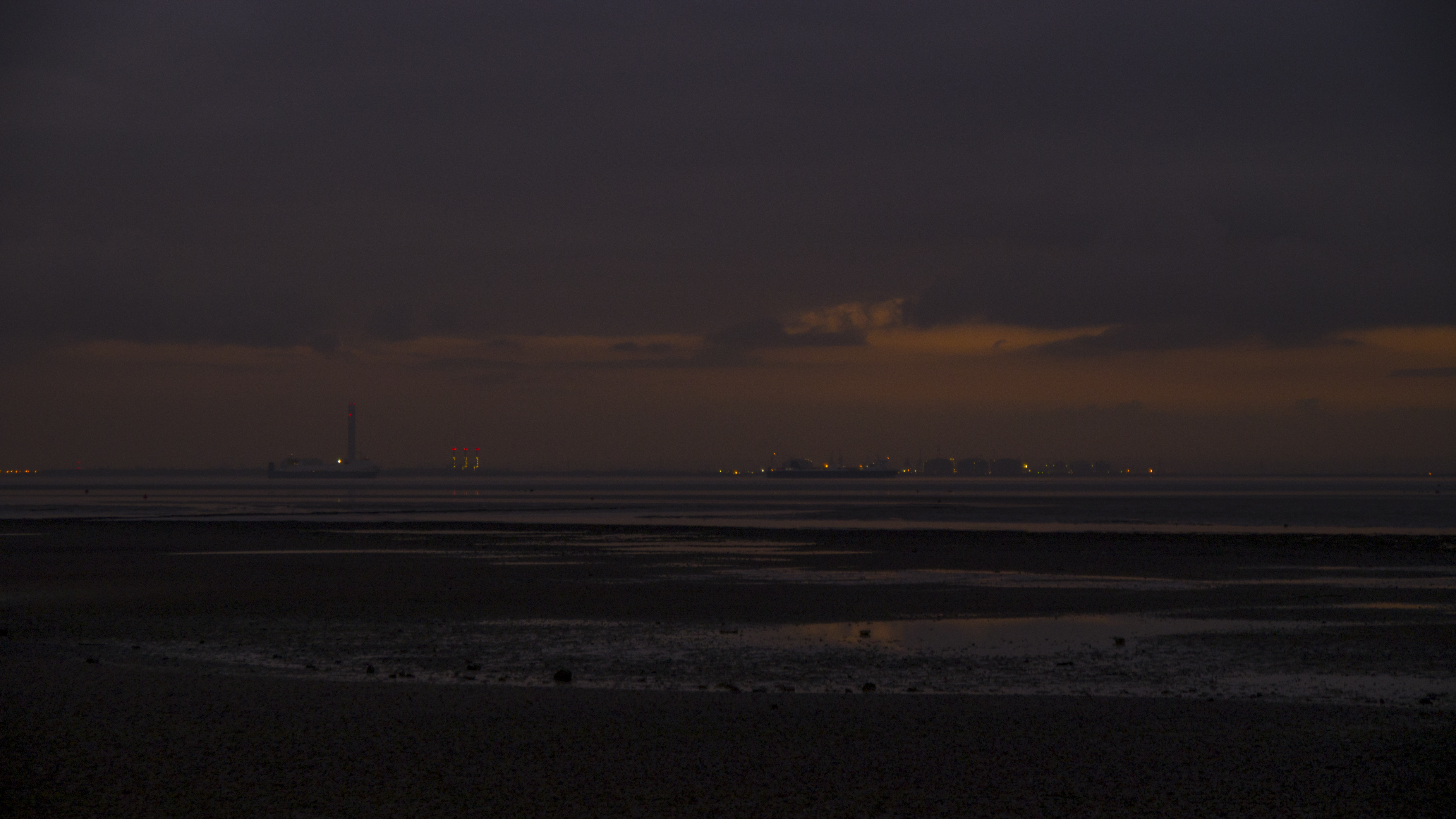 View across the Thames Estuary at Sunset.